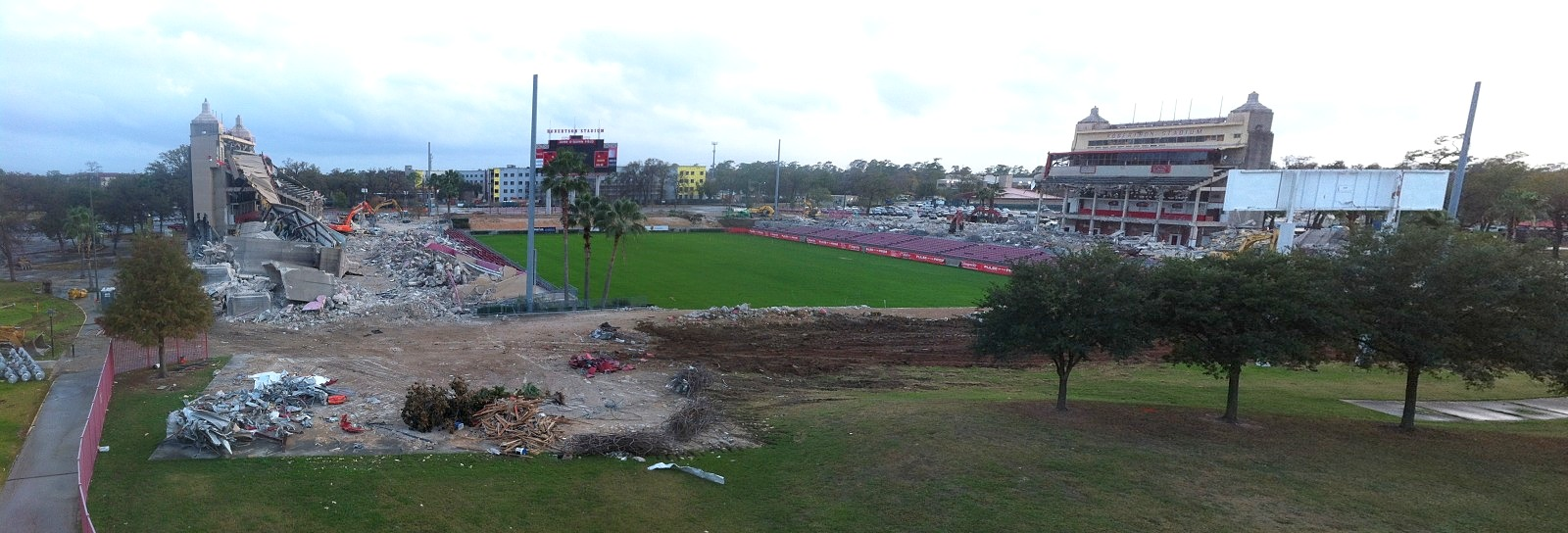 Robertson Stadium under demolition to clear space for new stadium